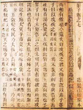 Text of 7th volume of Mozi (墨子卷之七), as wrote at upper-right